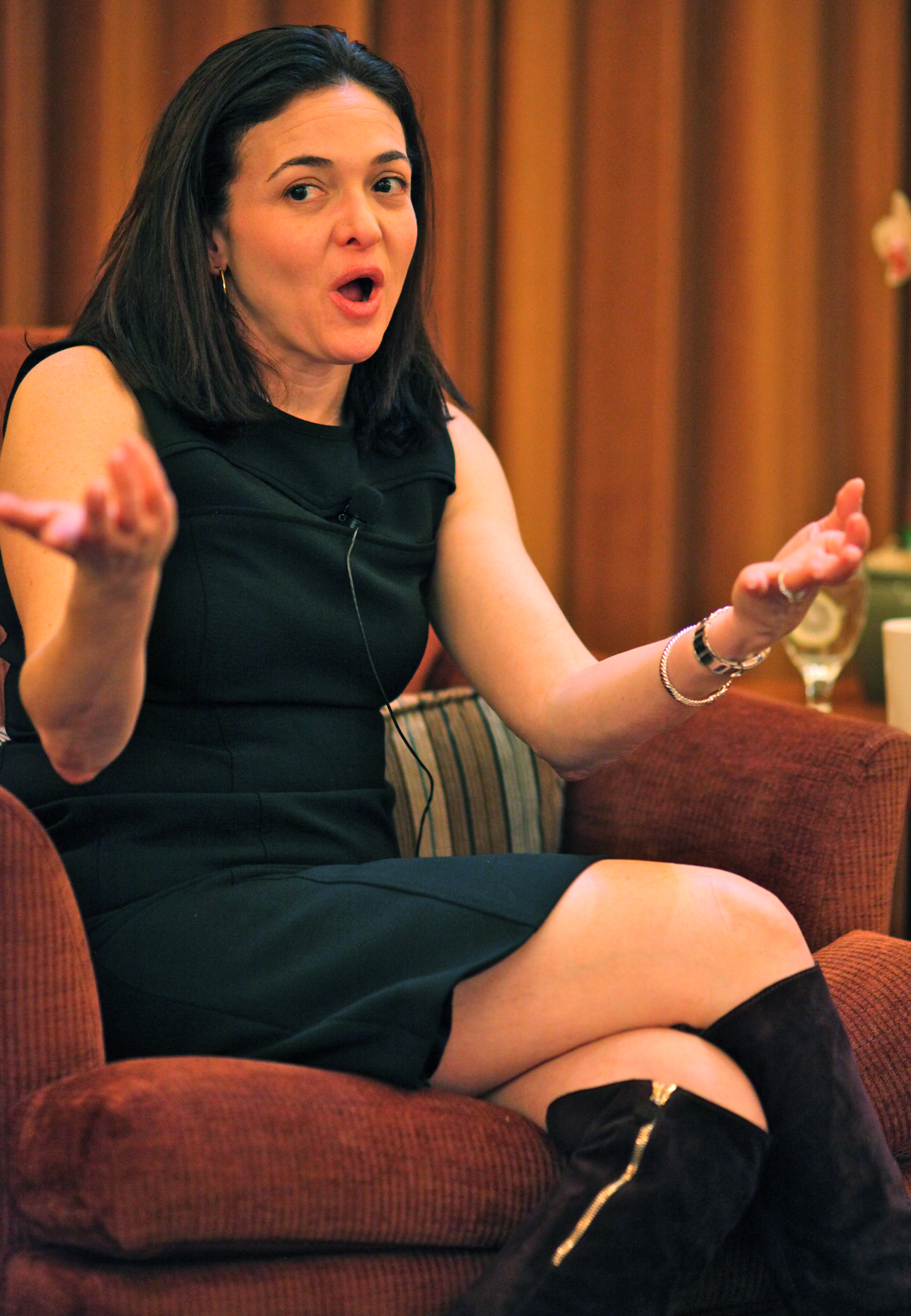 Having lunch with her again tomorrow. Her inspirational TED Women talk on leadership went online… Got questions for her?